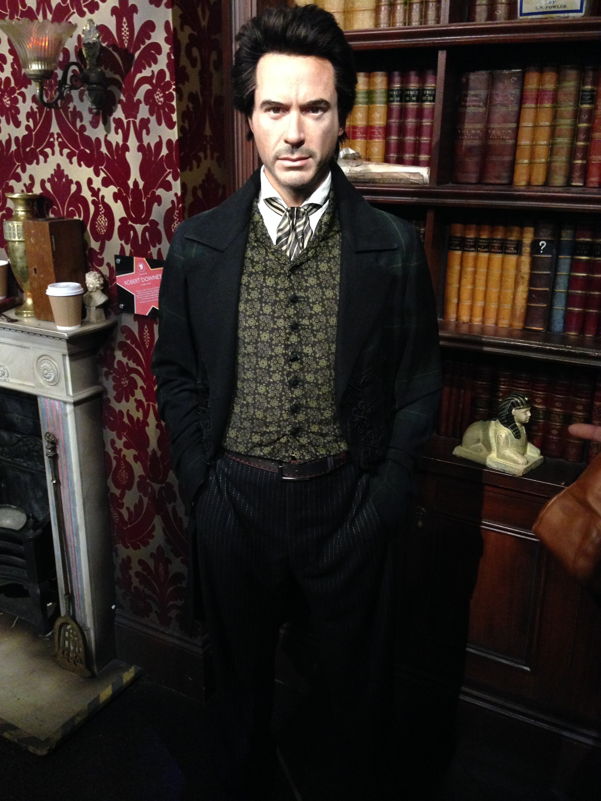 Sherlock Holmes at Madame Tussauds London - November 1st, 2016